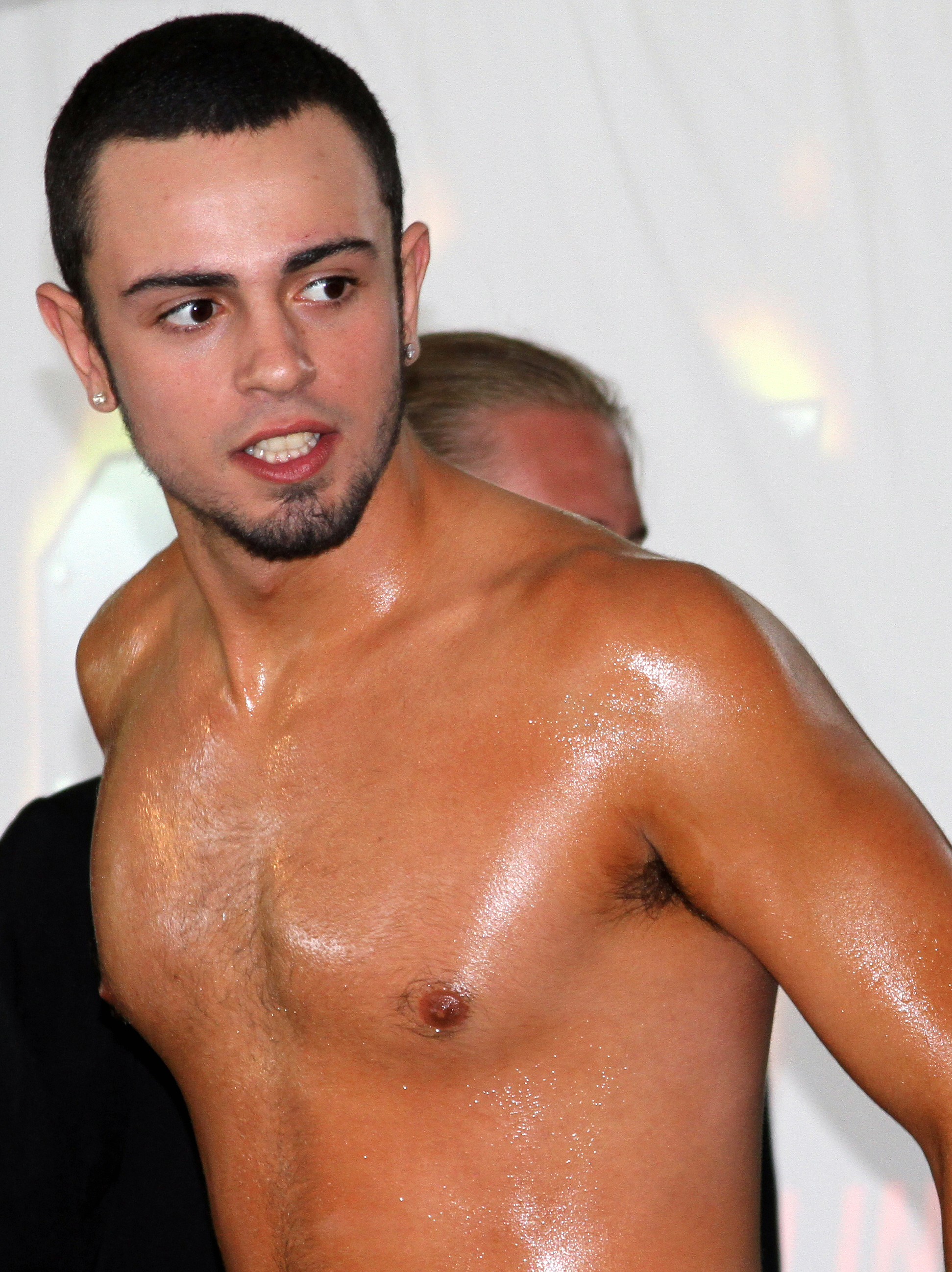 Paparazzo Presents...pro wrestler Elia Markopoulos appearing before his hometown fans at a Chaotic Wrestling show in Hudson, Massachusetts on August 19, 2012